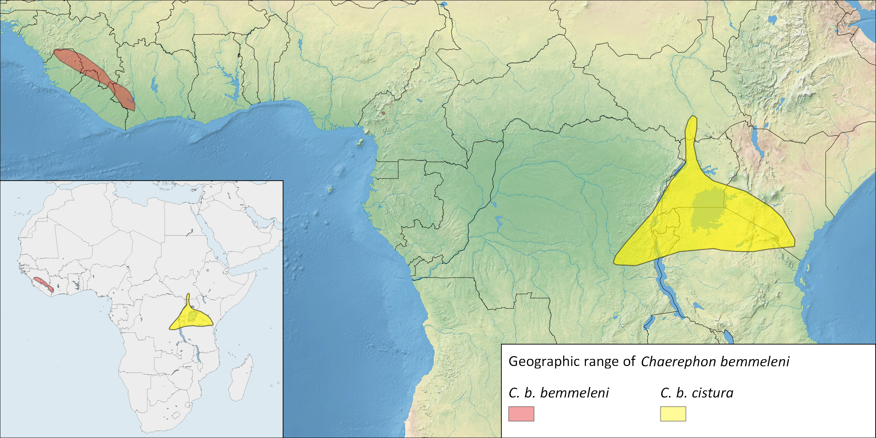 Geographic range of Chaerephon bemmeleni